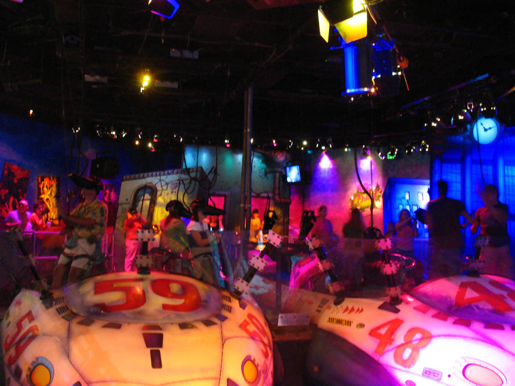 Ride the Comix at Disney Quest. Taken June 2007